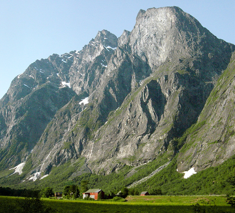 Rauma, from Marstein and the mountain Kalskråtind